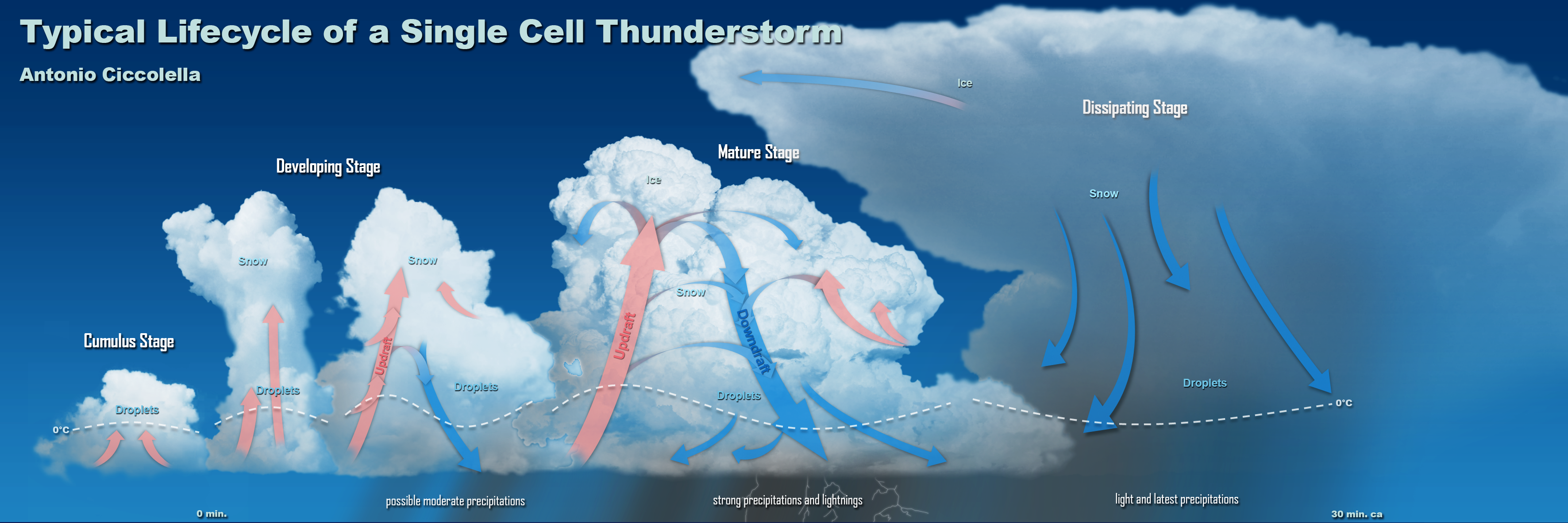 Progressive evolution of an Single Cell Thunderstorm